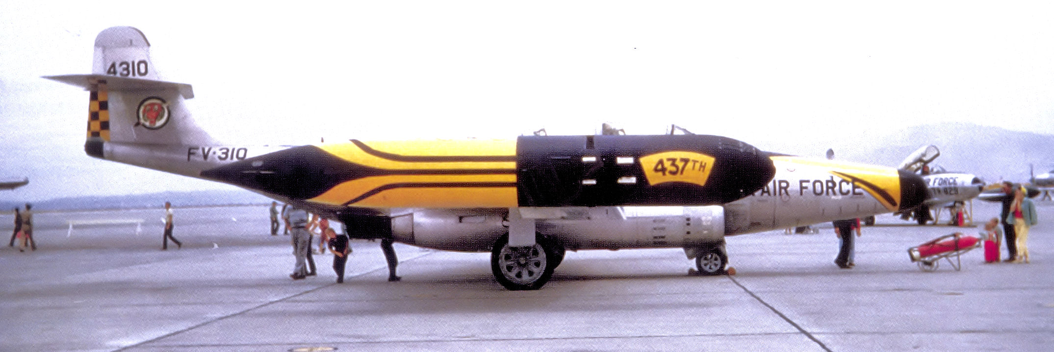 437th Fighter-Interceptor Squadron Northrop F-89H-1-NO Scorpion 54-310 1956 Stationed at Oxnard AFB, California. At Edwards AFB, California